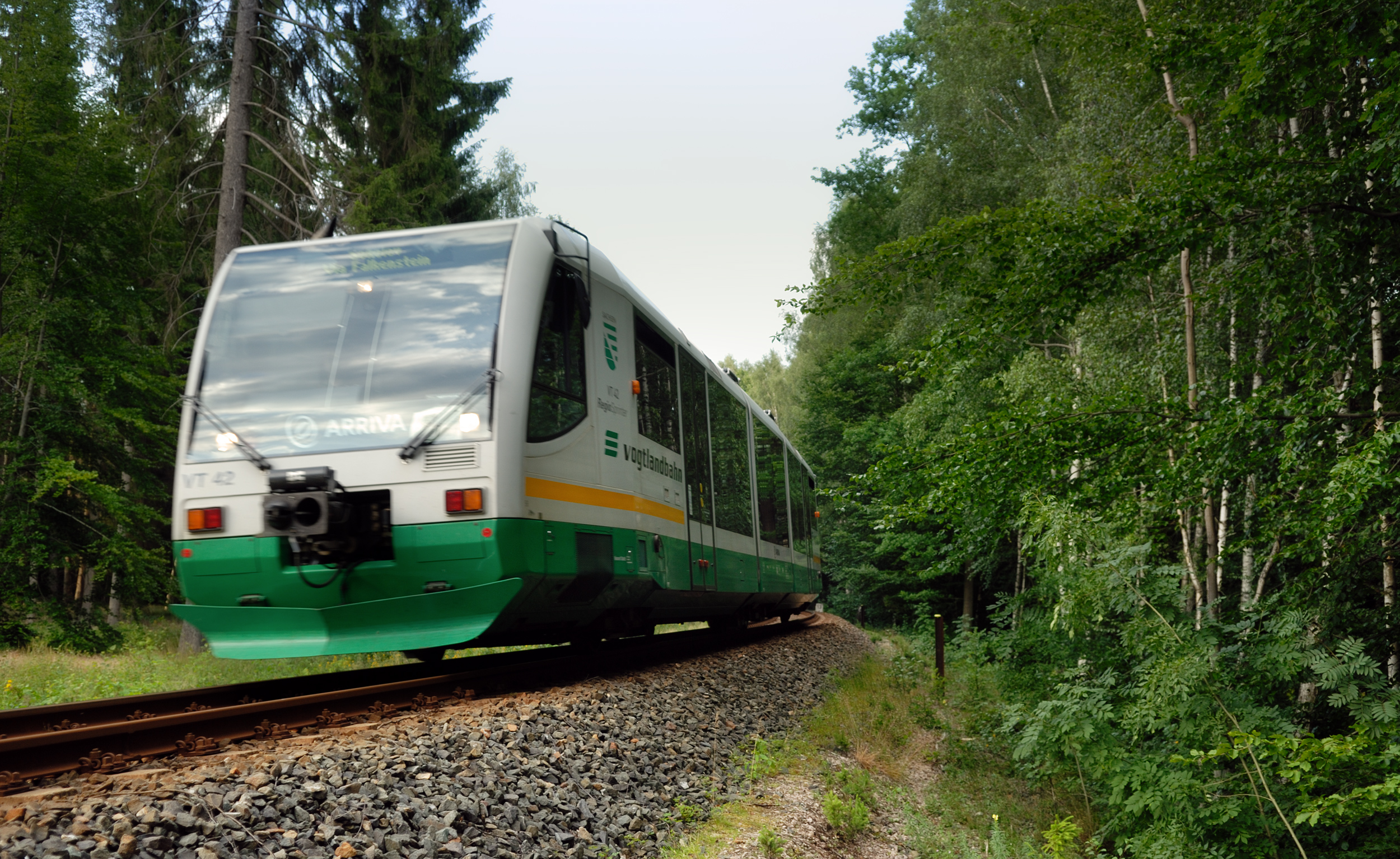 This image shows the Vogtlandbahn ("Vogtland train") near Irfersgrün, Germany.